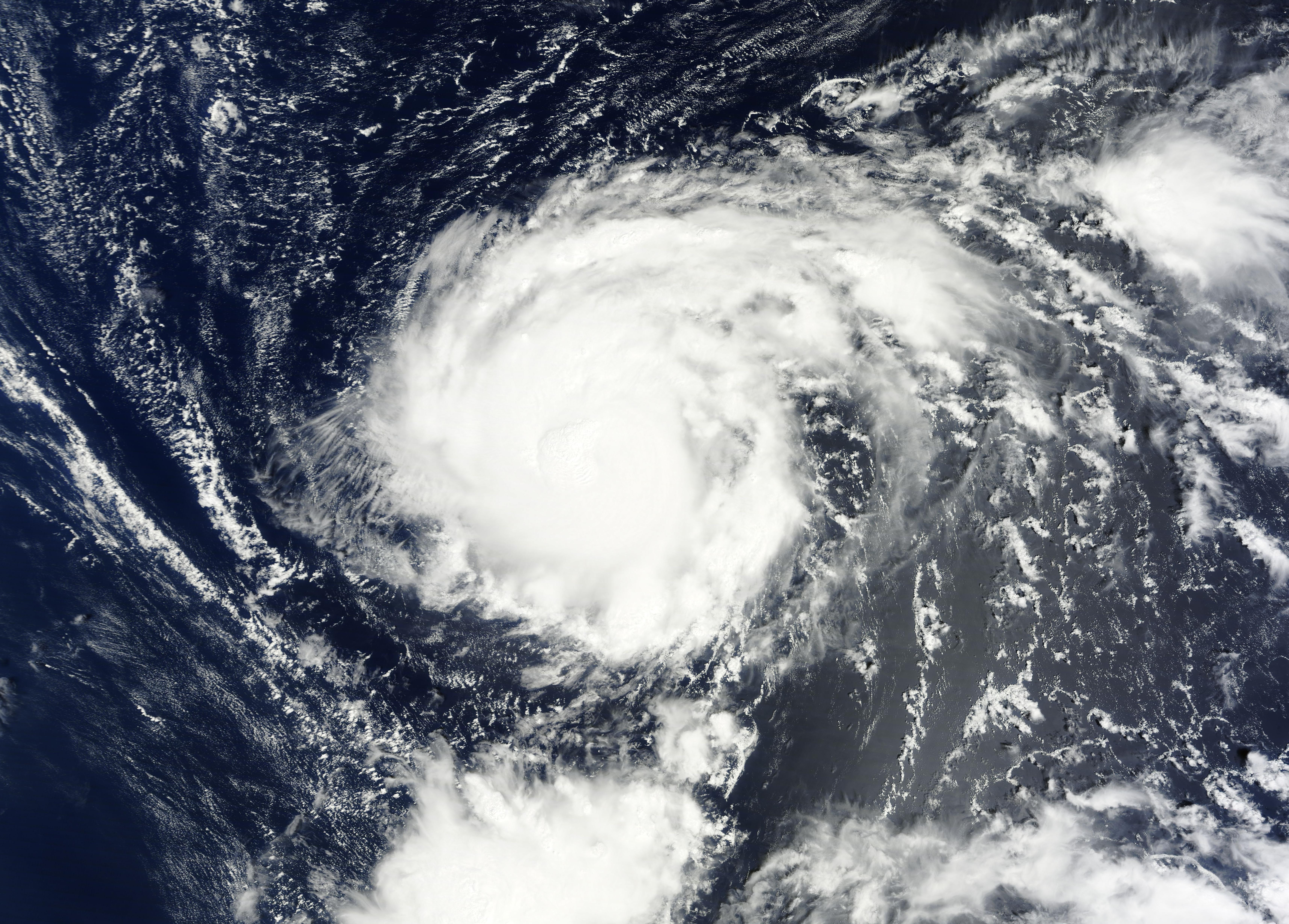 Nalgae strengthening off the Philippine coast of September 29.